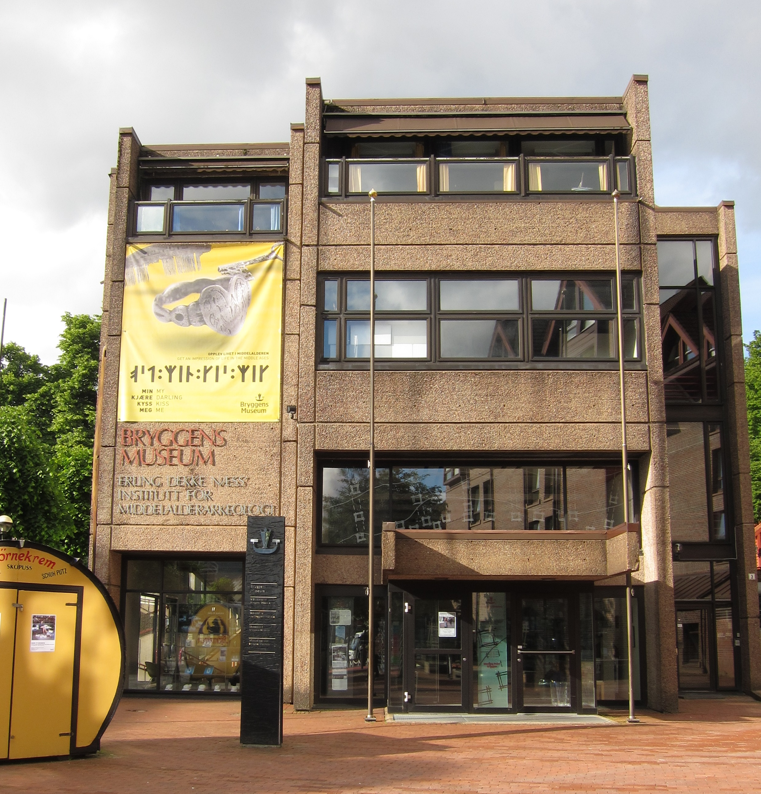 Bryggens Museum / Erling Dekke Næss' Institutt for Middelalderarkeologi